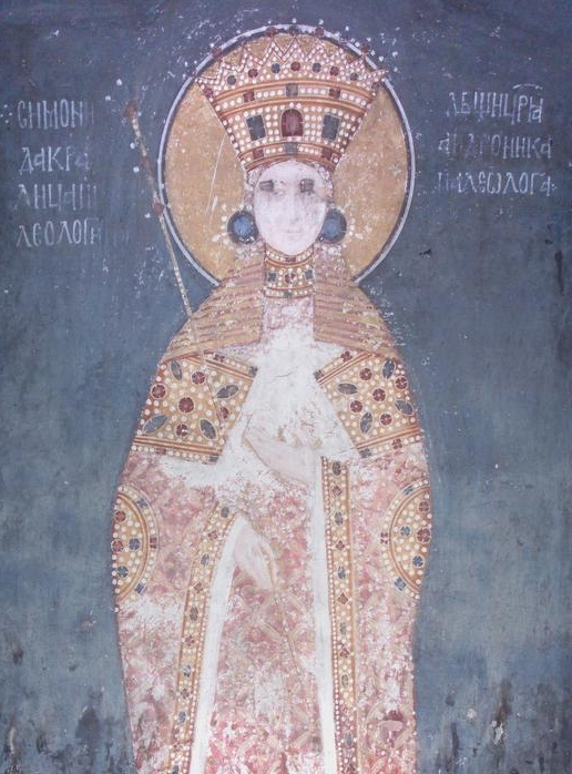 The fresco of queen Simonida Paleologus, Gračanica monastery, Serbia